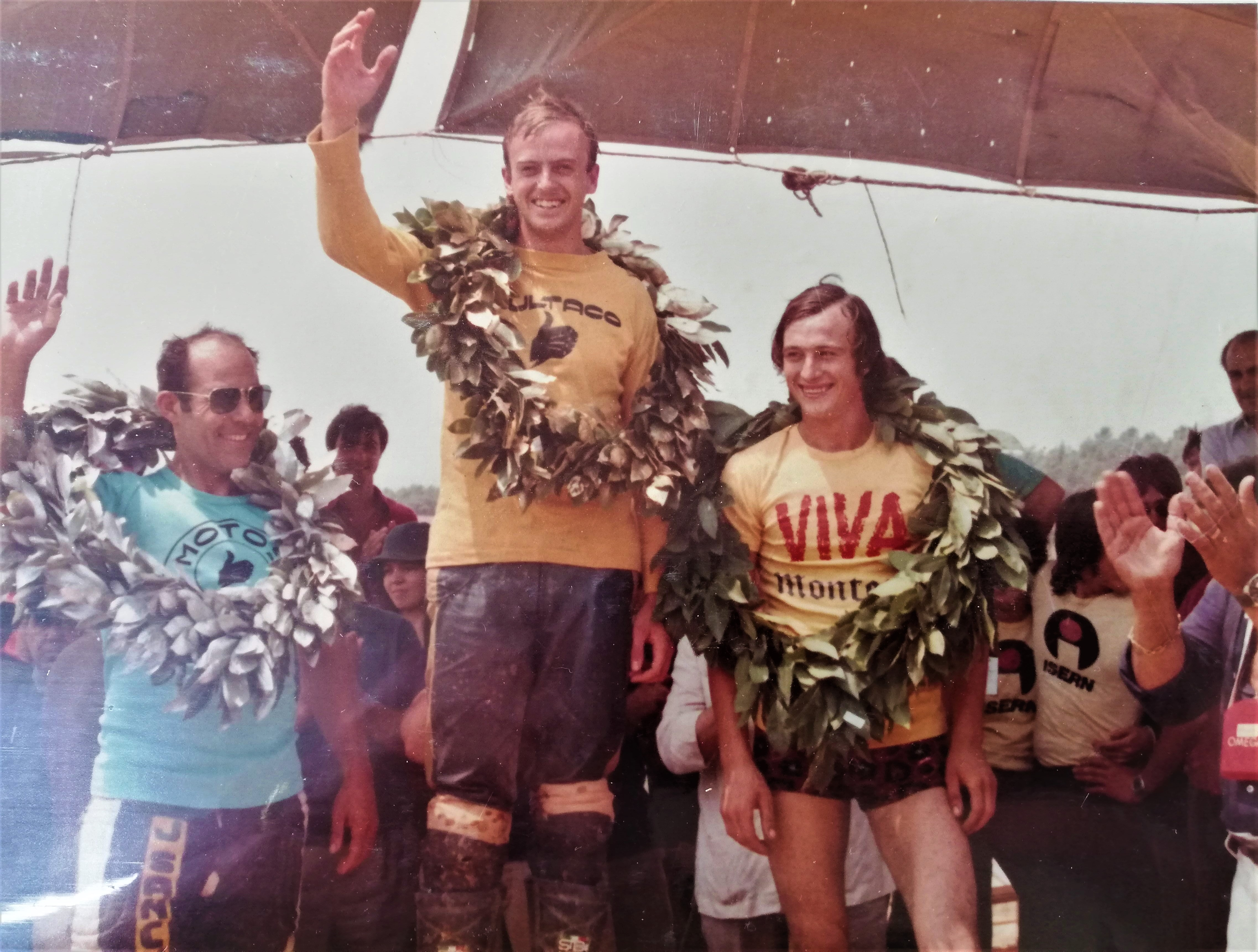 The podium of a a motocross race in Gallecs, circa 1974. From left to right: Pepe Sánchez, Ignasi Bultó and Domingo Illa